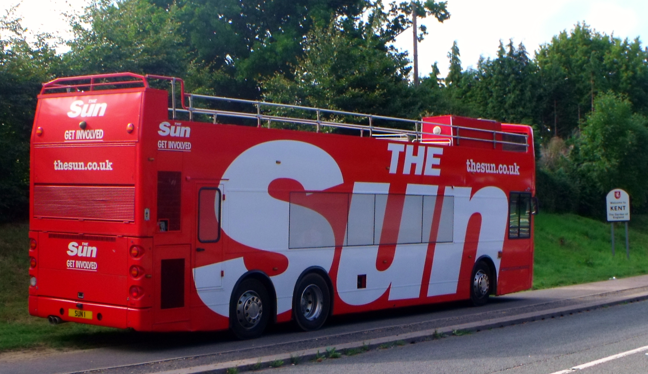 The prototype Dennis Trident 3, seen here in its new life as a promotional open top bus belonging to The Sun newspaper. It's parked up on the pavement of a country road close to the border with Kent (sign right) near Hawkhurst. As indicated by the special registration plate "SUN 1", working for the paper is its full time job. Built in 1997 it was the first Trident 3 chassis produced, being fitted with Alexander's new ALX500 body but minus an interior and with an older R-Type style front with split windscreen (as the ALX one had yet to be finalised). It remained with Dennis to be put through endurance testing, after which it was sold in 2005 and converted into this form. On the far side it's fitted with a middle door only, behind the front axle. The SUN 1 plate was previously worn on ex-London Transport Metrobus M768 (KYV 768X), which was also similarly converted and painted allover red for the paper.